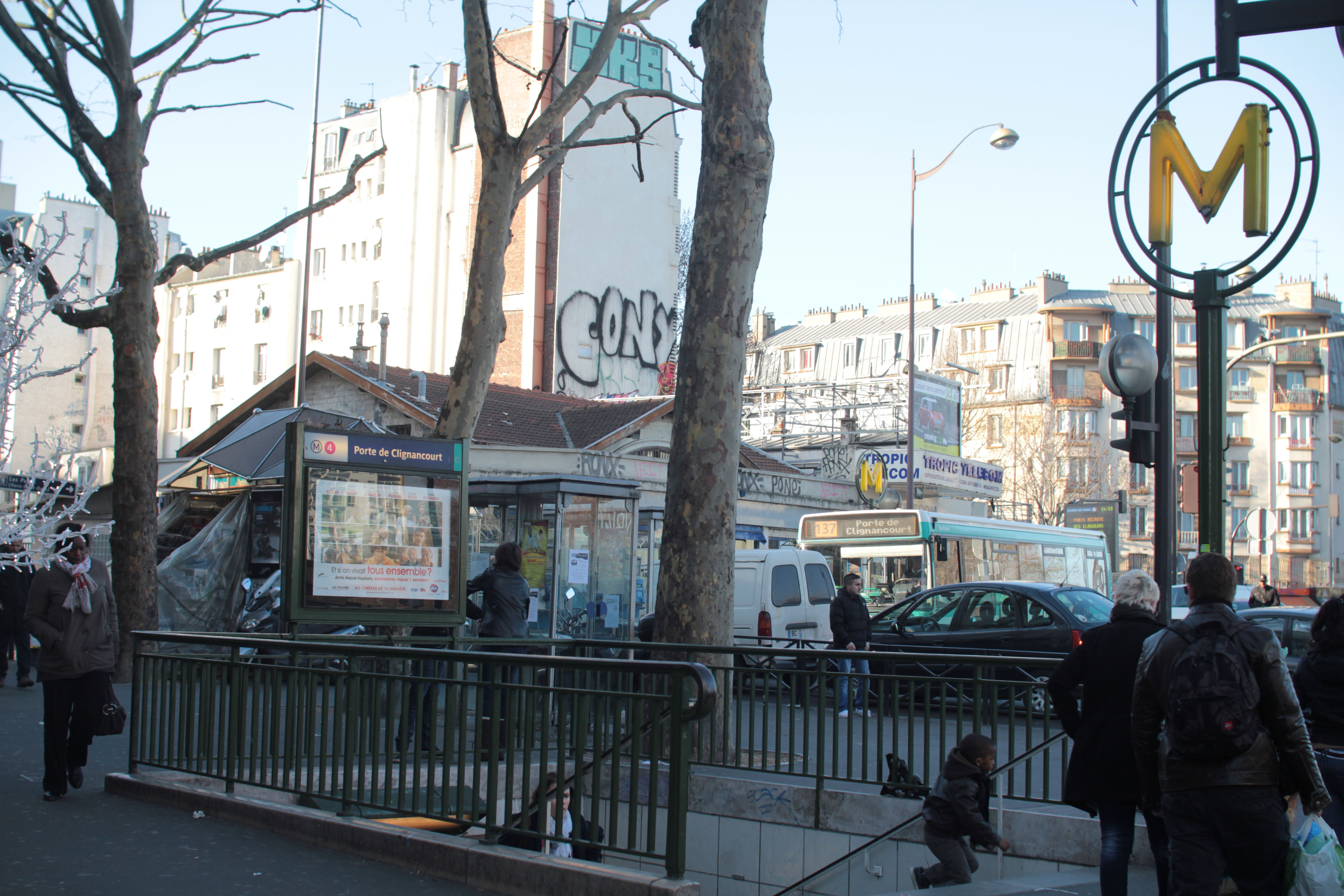 Entrance of the metrostation Porte de Clignancourt on Paris metro line 4, on the Boulevard Ornano